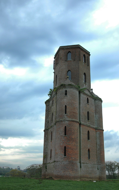 Horton Tower, Dorset. Horton Folly Tower stands 140 foot tall and was built by a Humphrey Sturt early in the 1700`s.